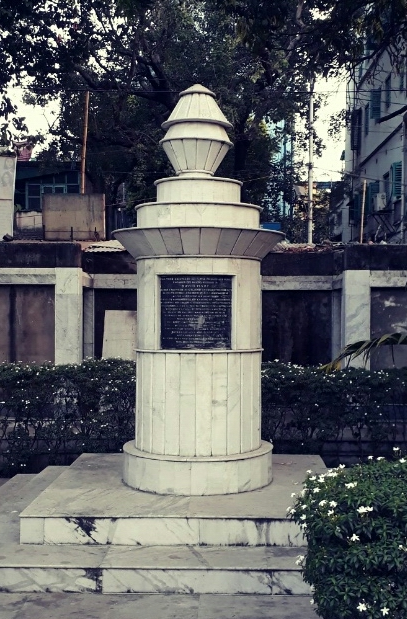 The grave of Devid Hare, college square, Kolkata